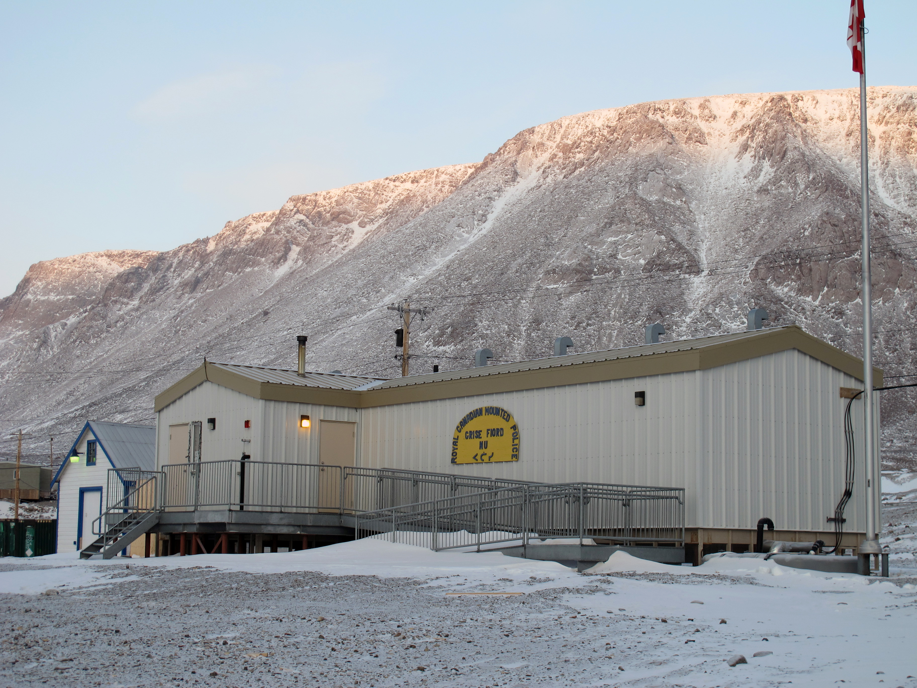 Canada's most northern R.C.M.P. station